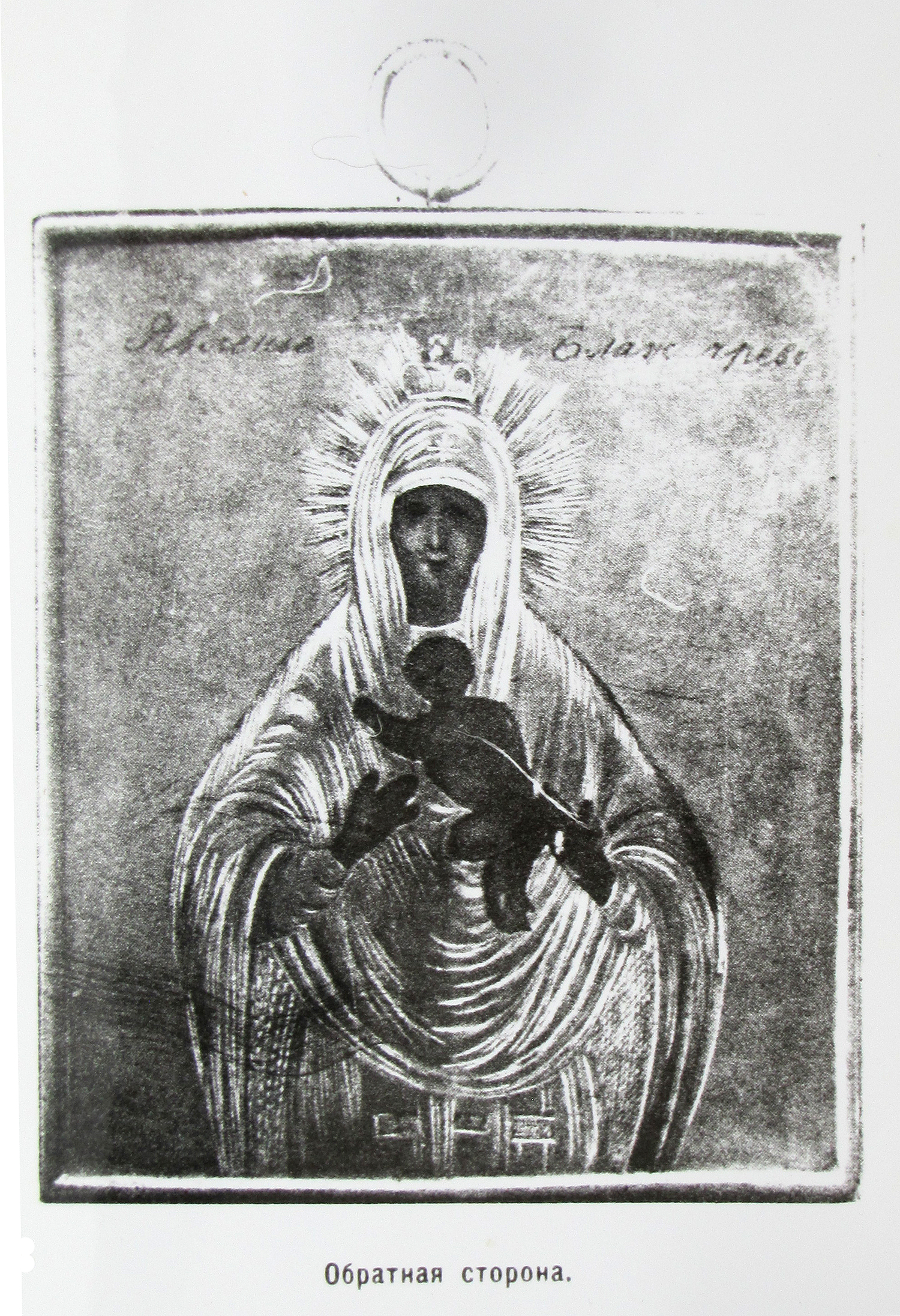 Icon of Aristarkh Il'ich Malama (back)